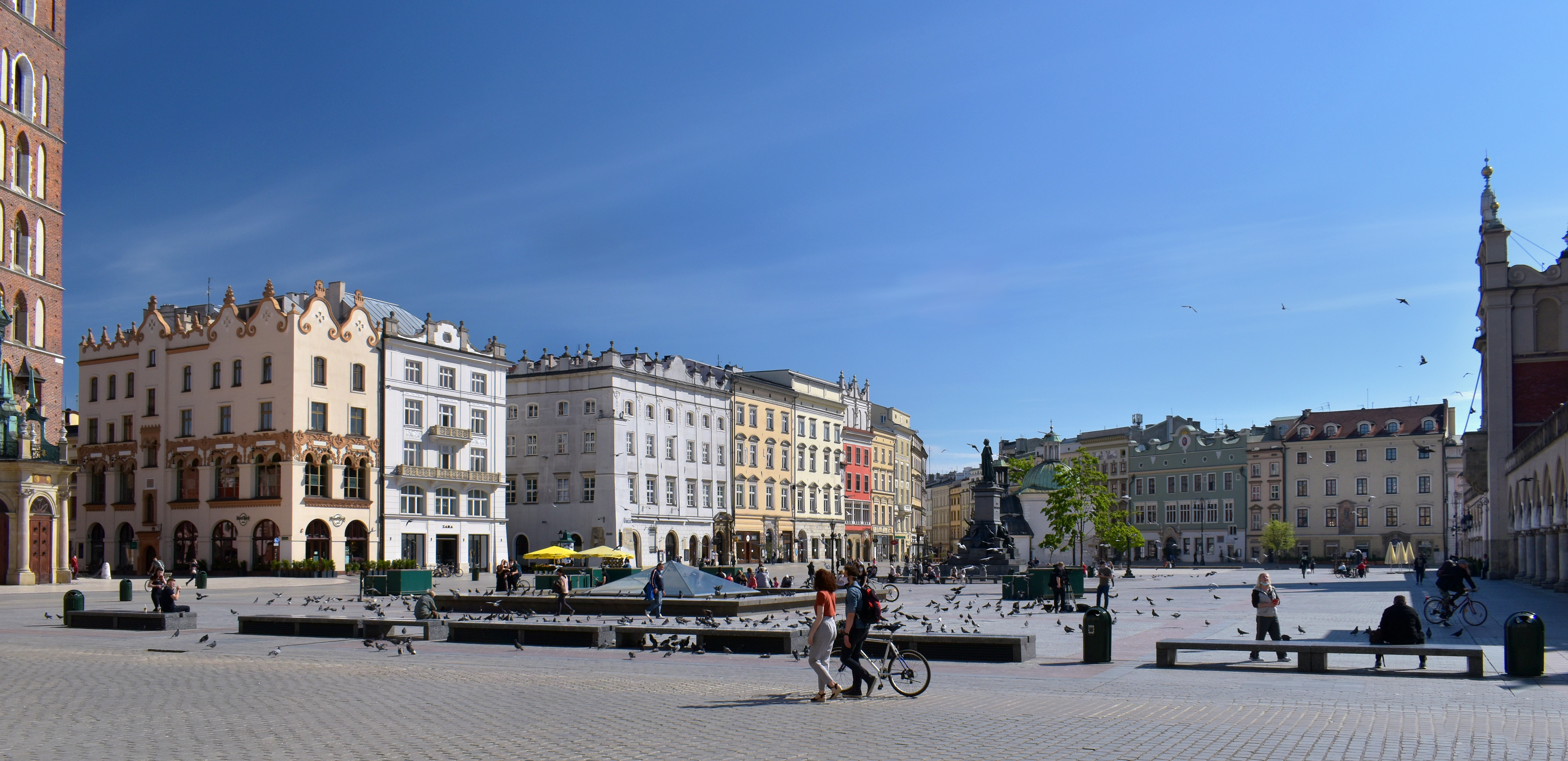 Main Market square, east side-view from N, Old Town, Krakow, Poland